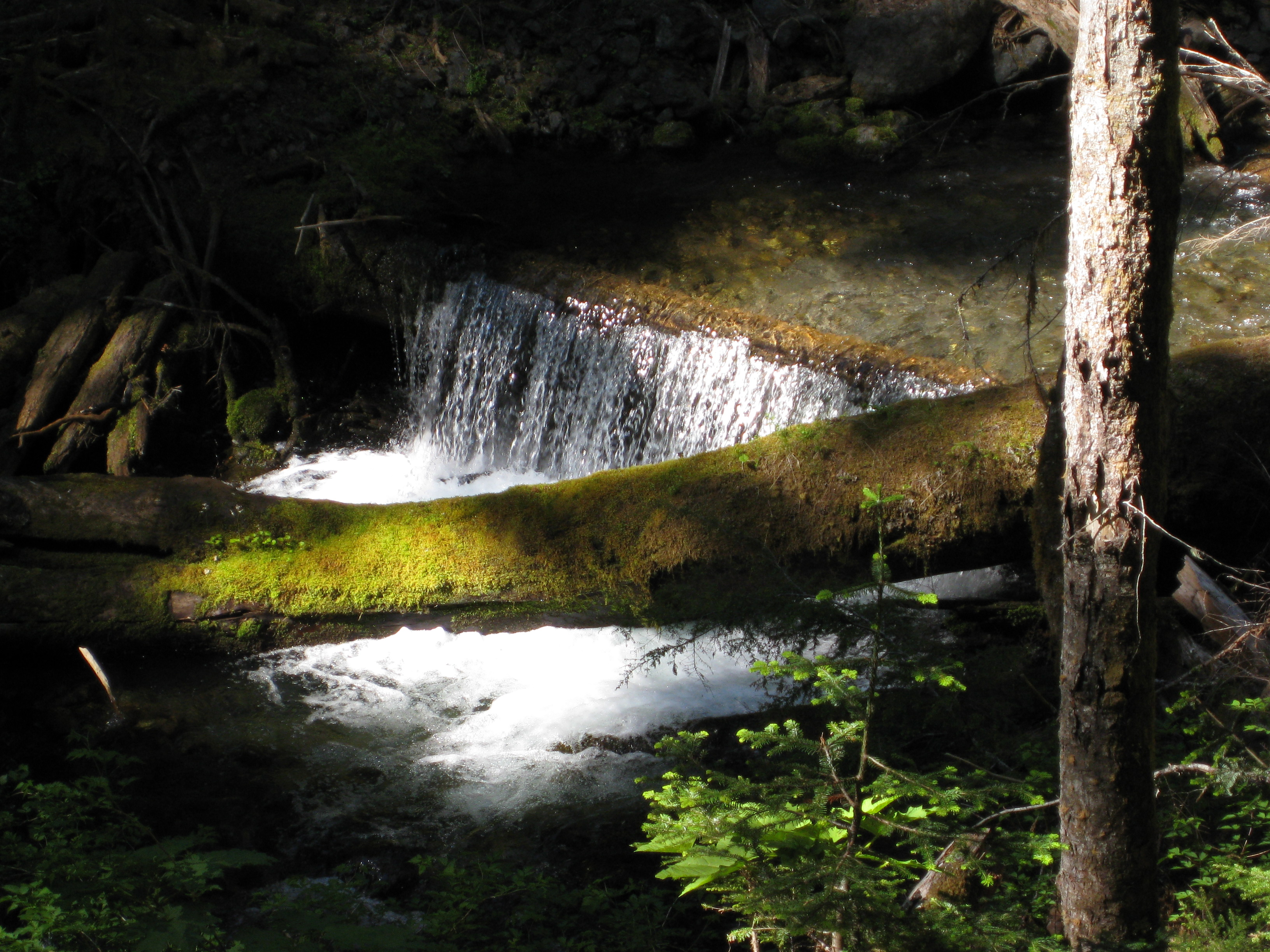 Starting out on Big Quilcene Trail to Marmot Pass